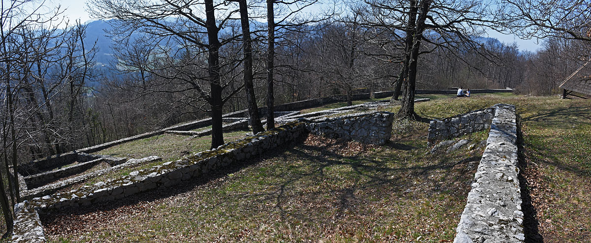 Rifnik hill southern terrace is hosting remains of an ancient village. behind also the village walls and its towers can be seen. On the right, there is a covered cistern which is nowadays hosting a lapidarium.